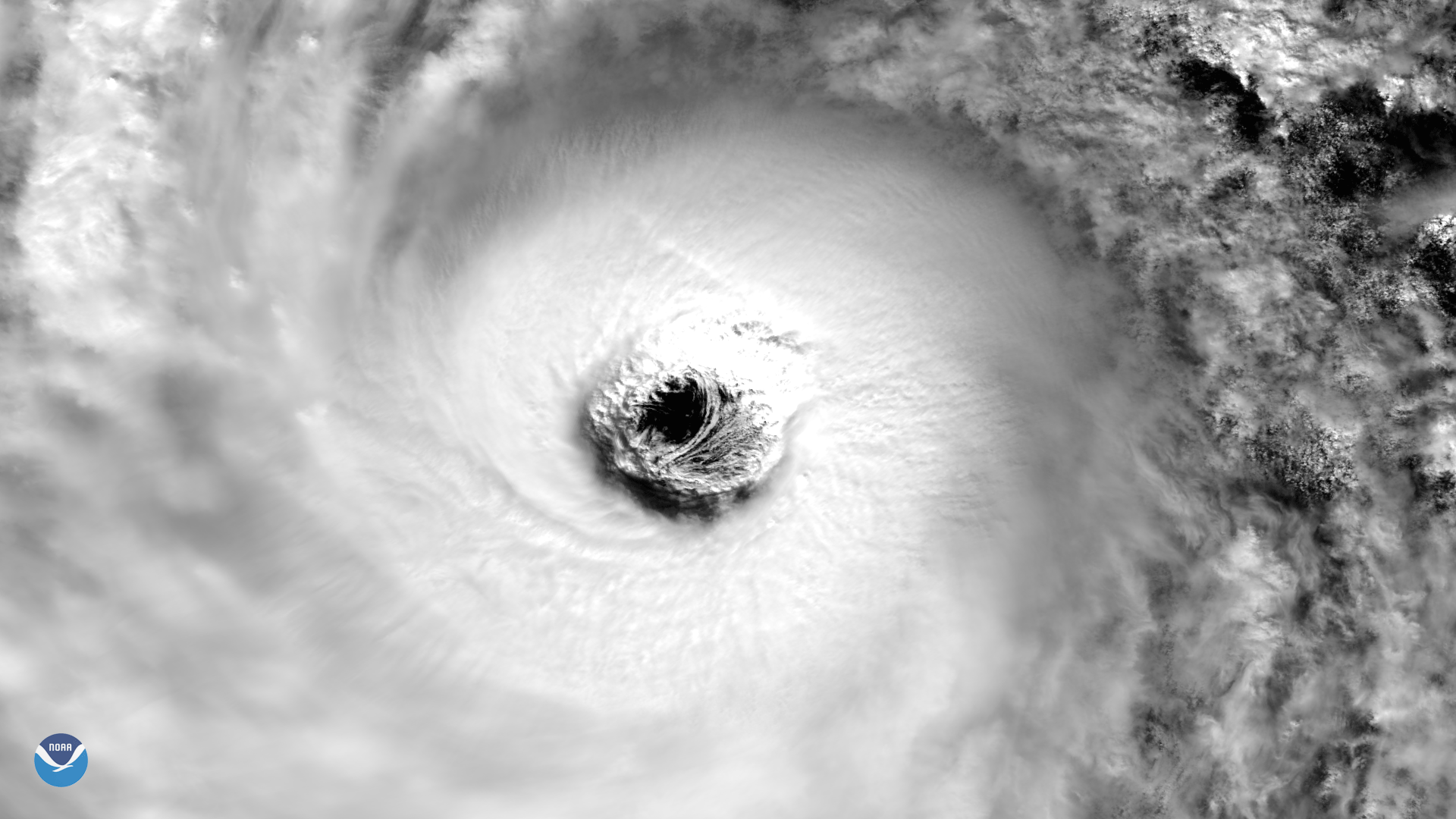 On October 21, 2017, the VIIRS instrument aboard NOAA/NASA Suomi NPP Satellite captured this image of Super Typhoon Lan's well-defined and large eye - over 100 km wide. The storm rapidly consolidated and intensified reaching peak intensity that day but had weakened to a Category 2 equivalent typhoon before making landfall on Shizuoka, Japan, 175km (110 miles) south-west of Tokyo, at about 03:00 local time on Monday (18:00 GMT Sunday) October 23rd. Gusts of up to 198km/h (123mph) hit the country, as reported by multiple news sources.